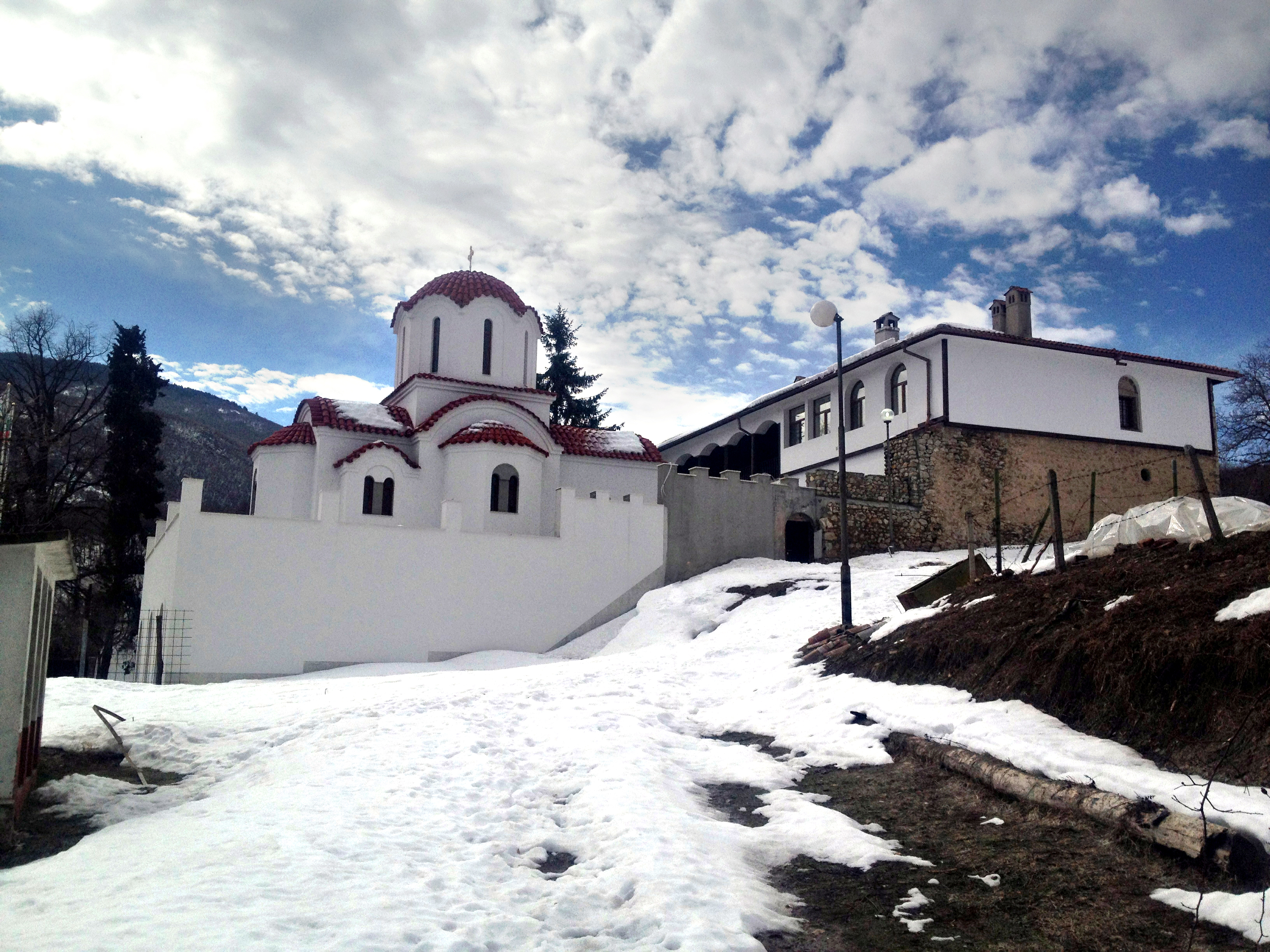 Kuklen monastery, Bulgaria